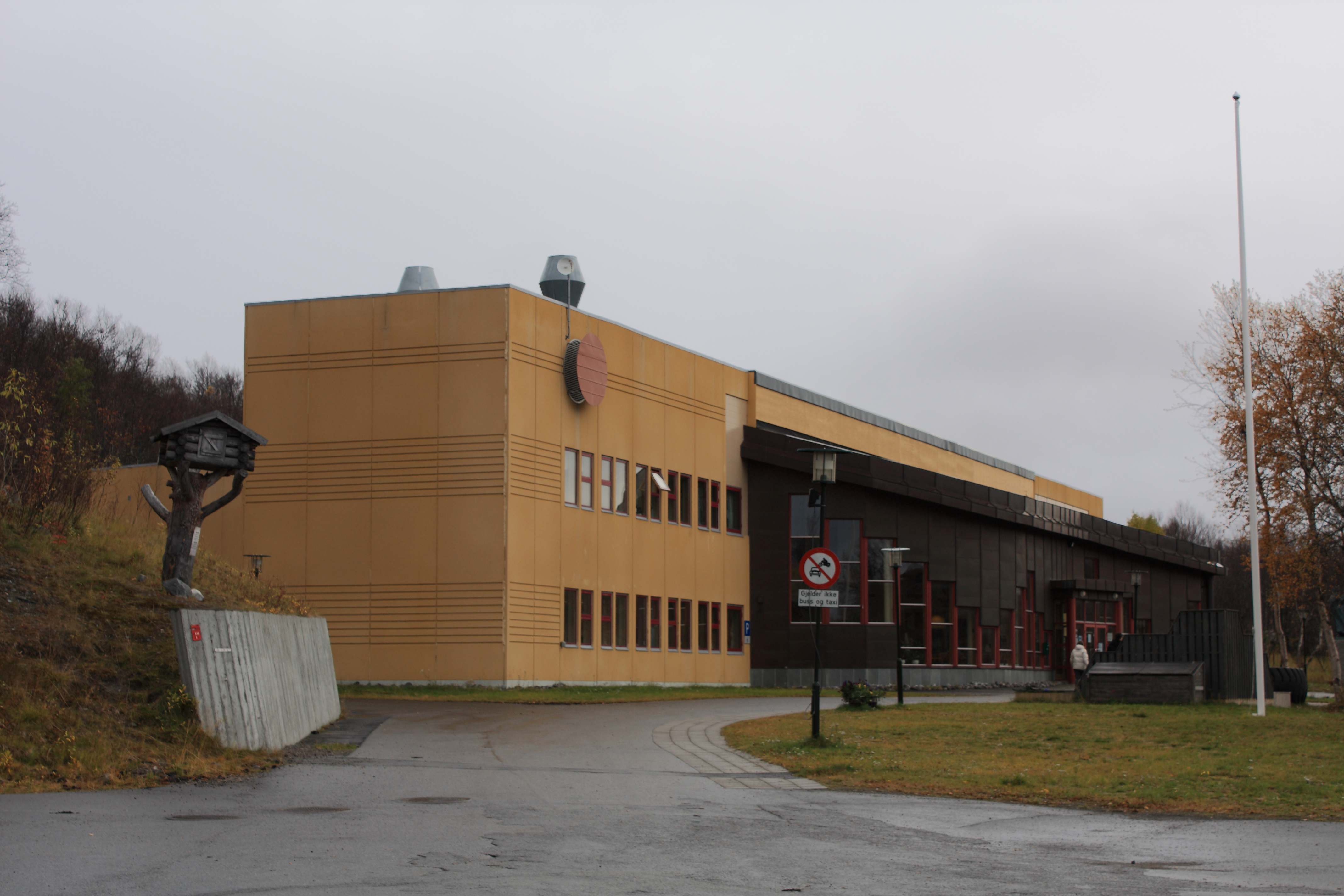 Sør-Varanger museum, Kirkenes, Norway.